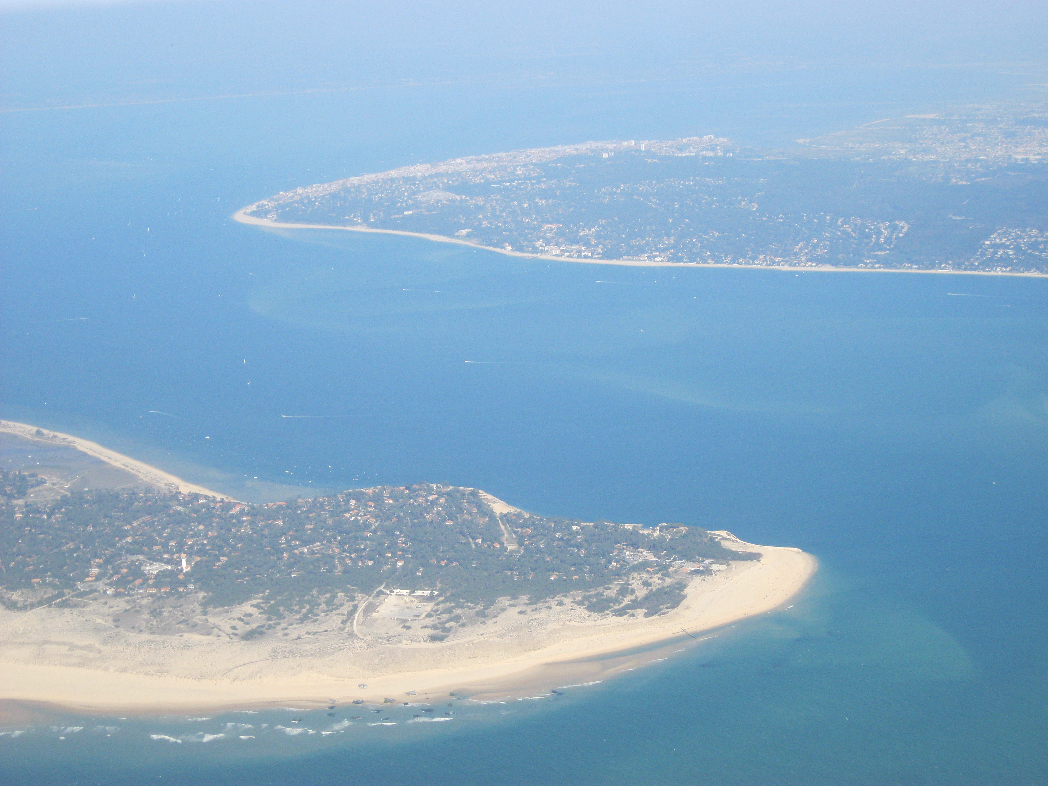 Aerial view of the entrance of the Arcachon basin. Bottom : Cap-Ferret. Top : city of Arcachon.